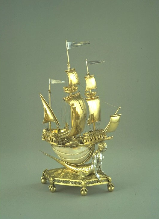 The Burghley Nef, 1527-1528, France, V&A Museum no. M.60-1959 Techniques - Nautilus shell with parcel-gilt silver mounts, raised, chased, engraved and cast, and pearls. Dimensions - Height 34.8 cm, Width 20.8 cm, Depth 12.2 cm, Weight 0.78 kg